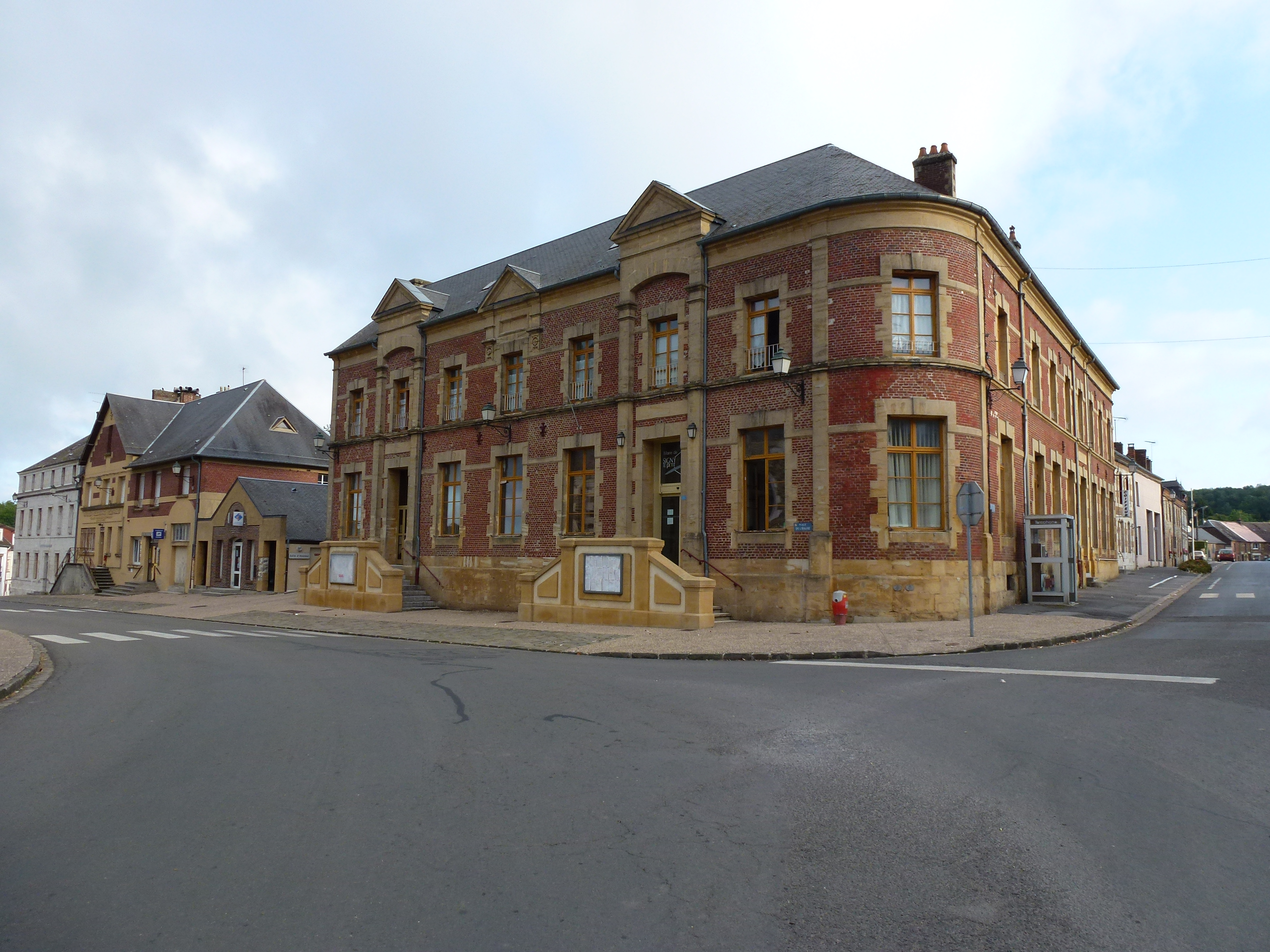 Signy-le-Petit (Ardennes) Mairie